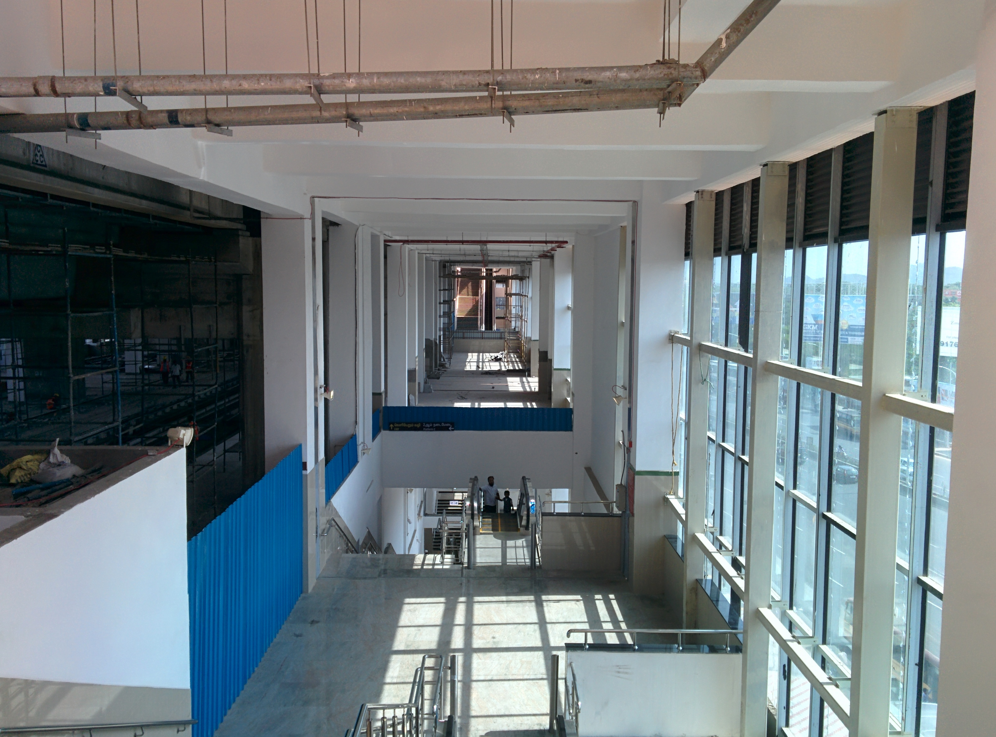 View from escalators at the Alandur station of the Chennai Metro.